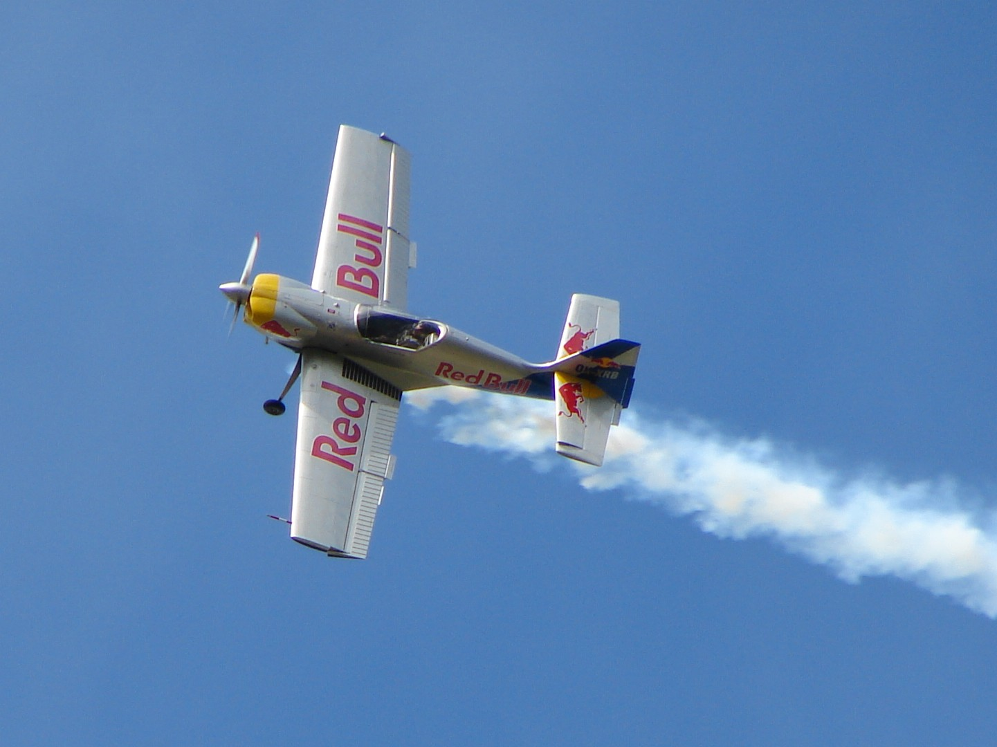 Flying Bulls Aerobatics Team during an Air Show in Krems, Austria